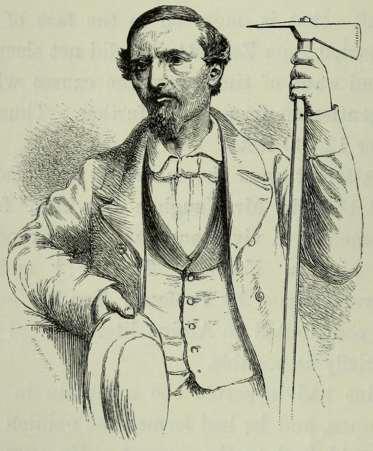 Image on page 120 of Scrambles amongst the Alps